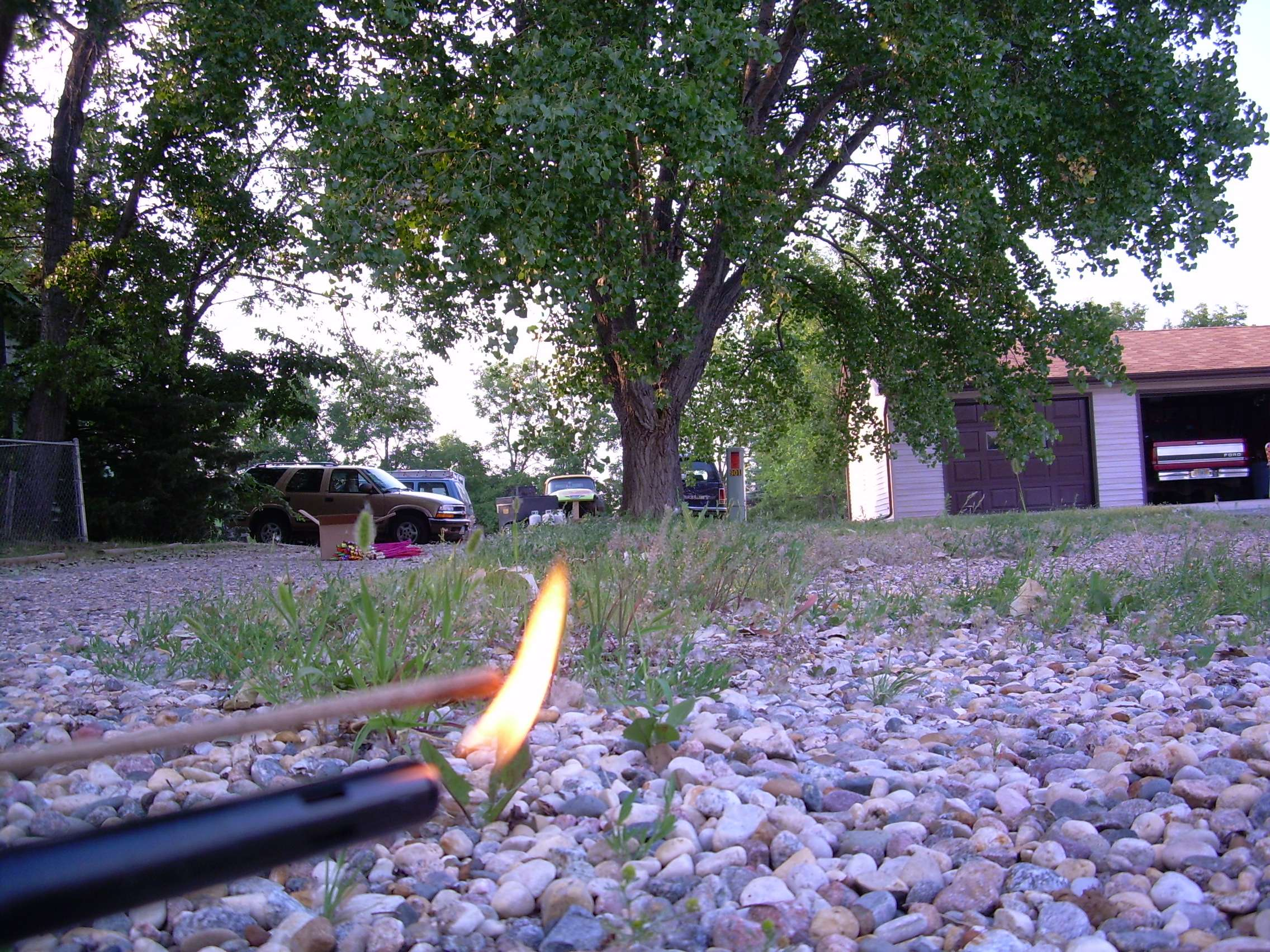 Lighting a punk for use in lighting consumer fireworks. A lighter is shown with the flame at the tip of the punk.